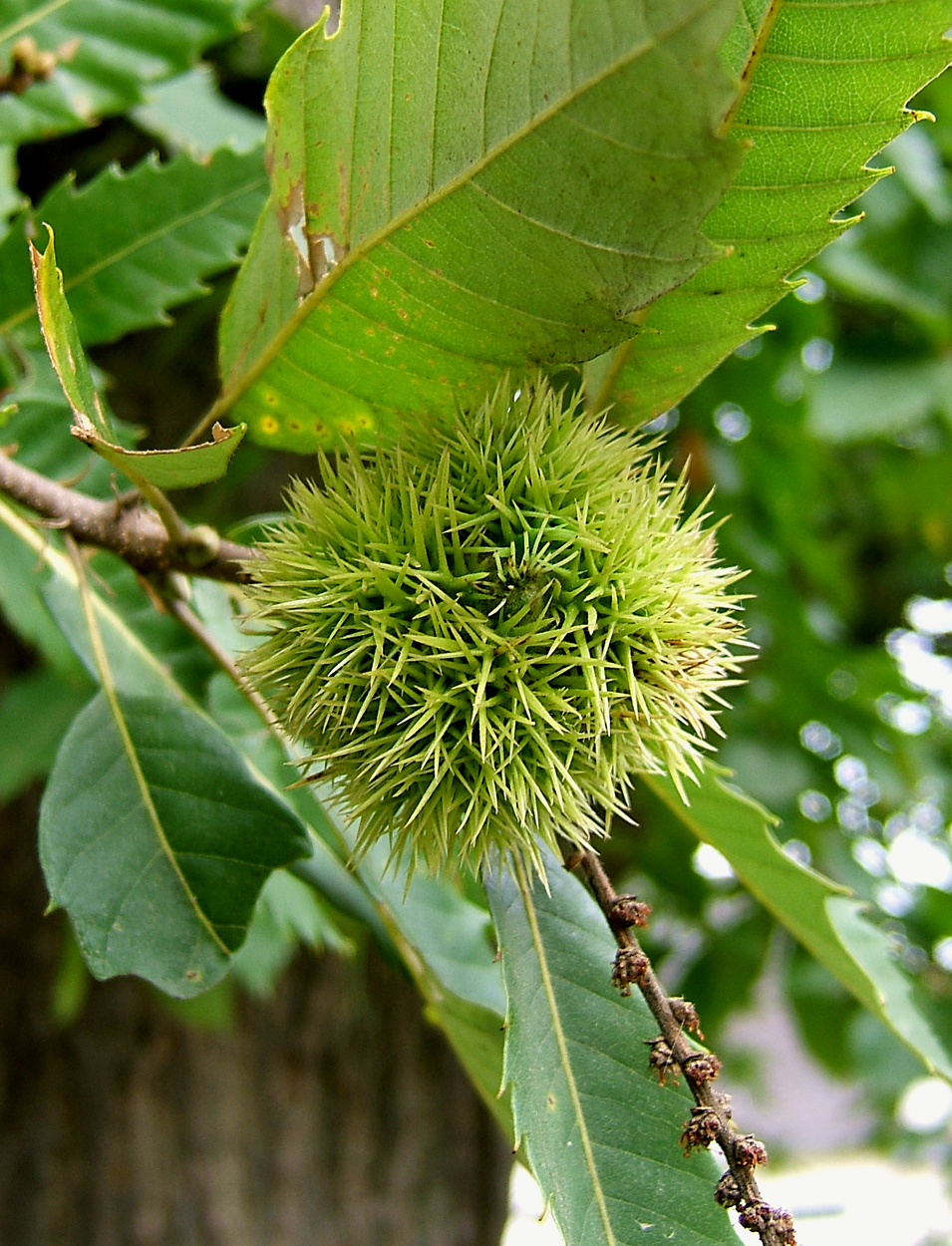 Sweet Chestnut